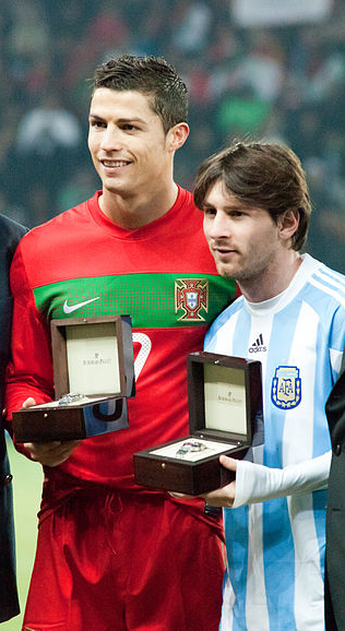 Portugal vs. Argentina, 9th February 2011